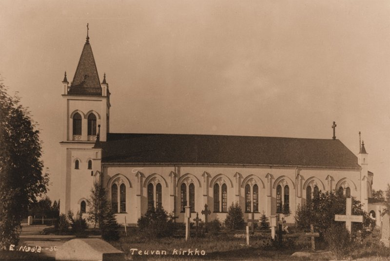 Teuva old church, Finland